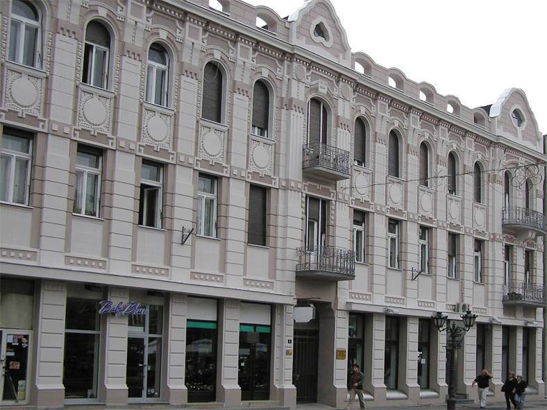 The building where Theatre museum of Vojvodina is located Srpski (latinica): Zgrada Pozorišnog muzeja Vojvodine